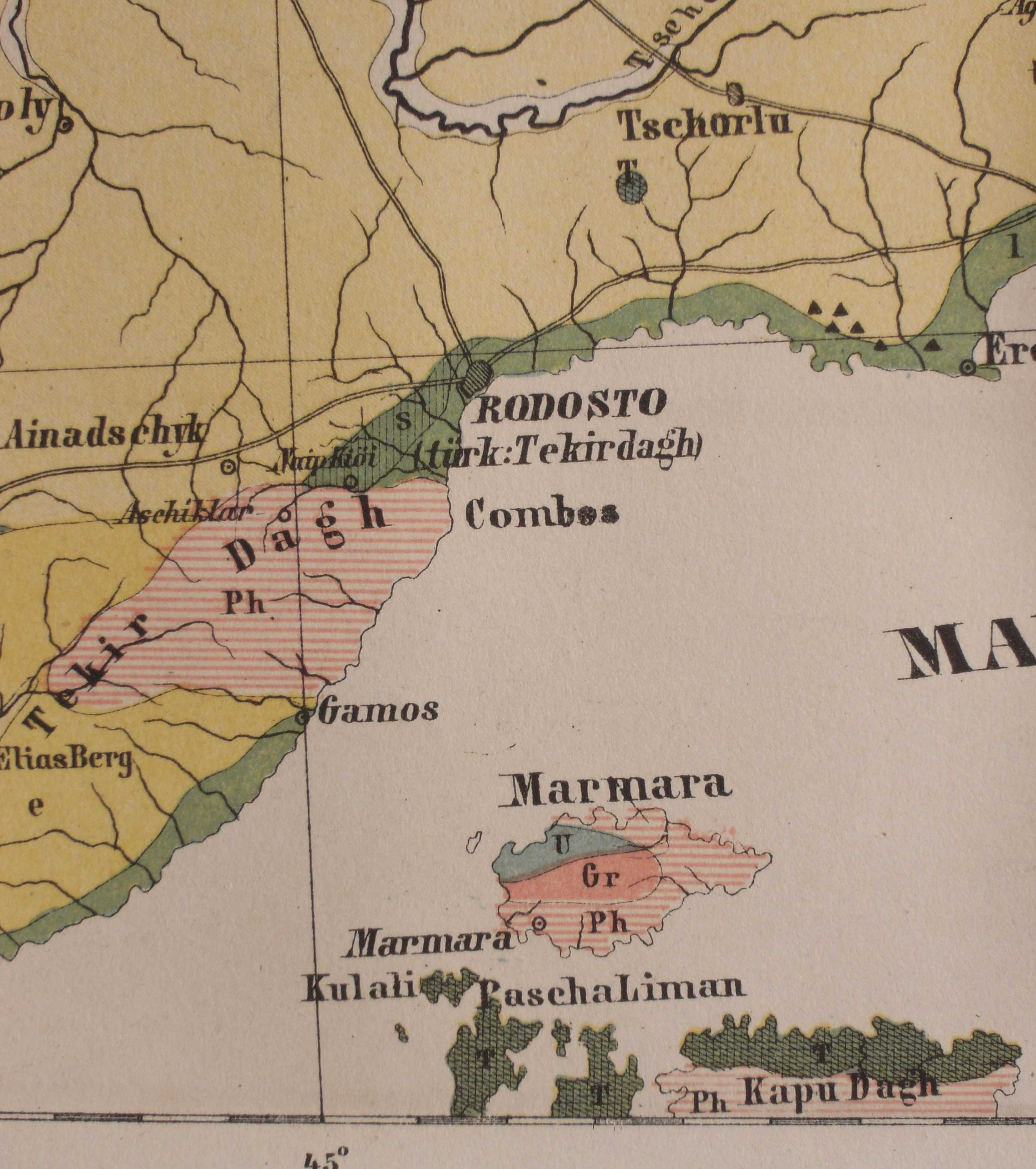 Geological map with Marmara Island (Ferdinand von Hochstetter 1870)